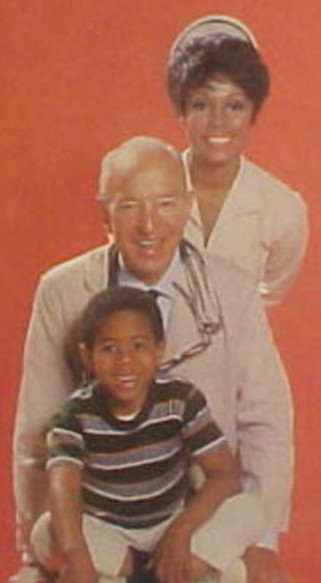 Viewer response photo of Diahann Carroll, Lloyd Nolan and Marc Copage from the television show Julia. Back of photo card has the show's name and facsimile signatures of the three stars. The item's actual size is that of a postcard.